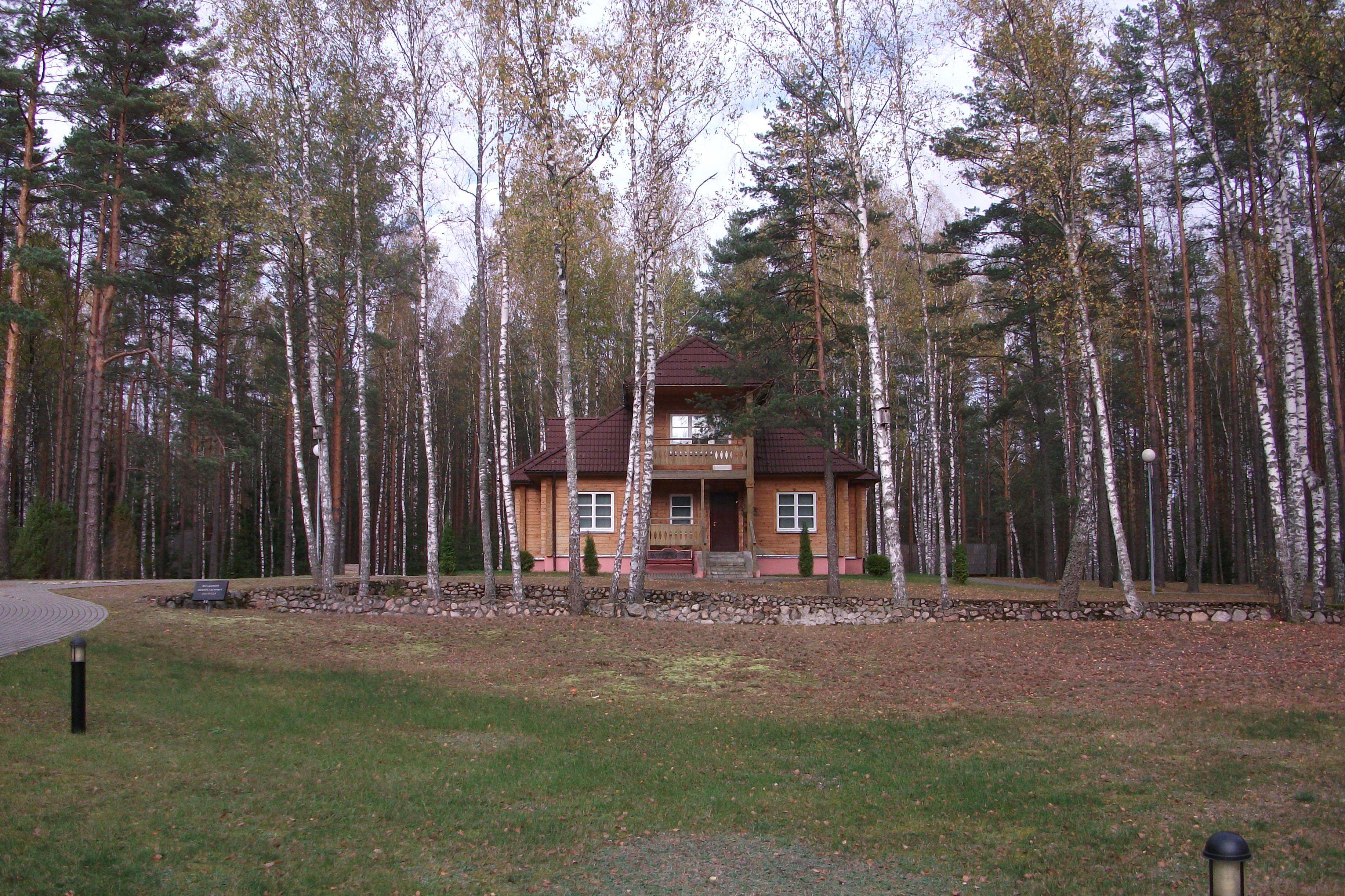 'Dzyarzhynava' Memorial Complex, Stowbtsy Raion, Belarus This is a photo of Belarusian heritage monument. Reference number: 613Д000612 ( WLM)